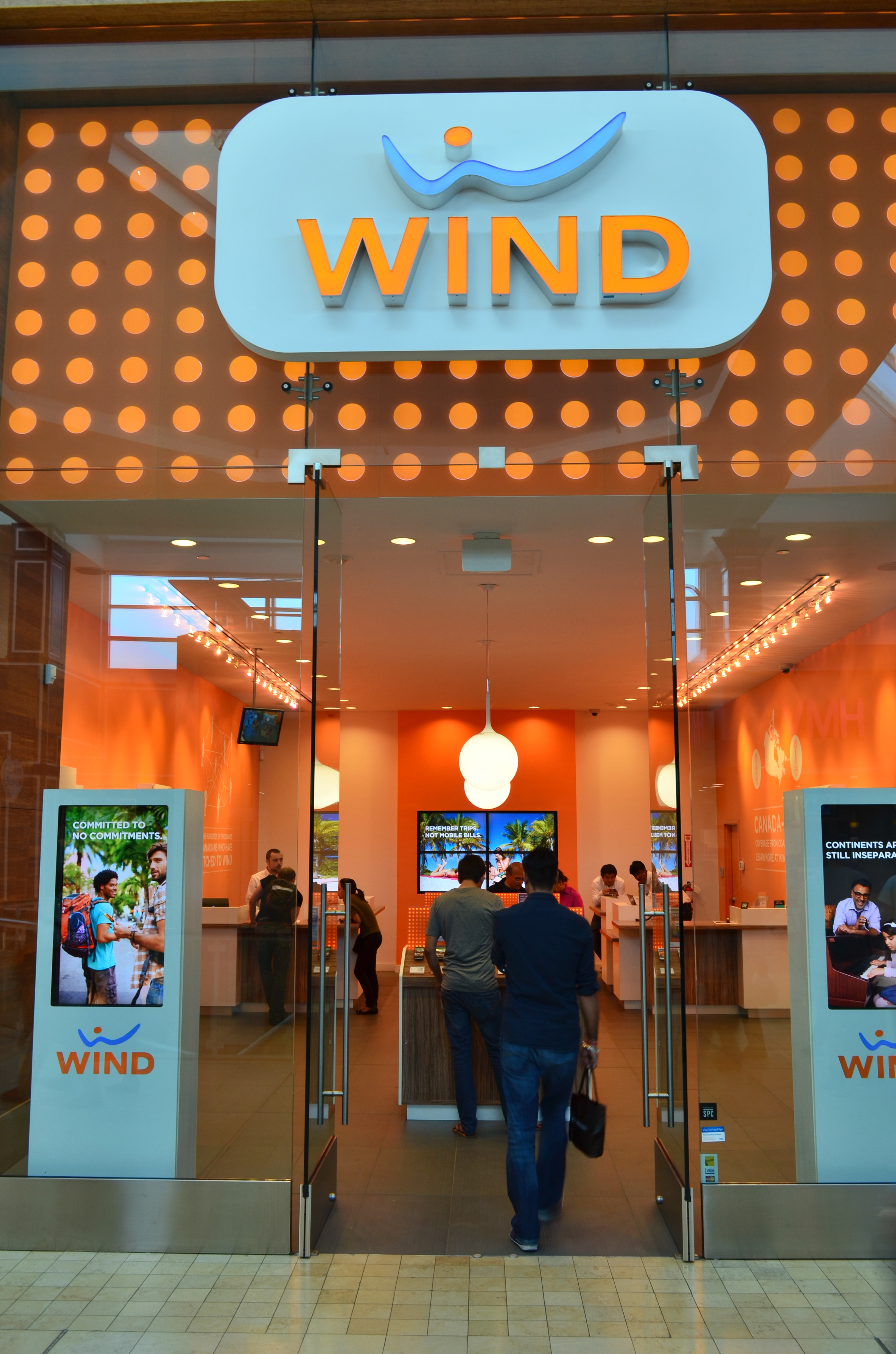 Wind Mobile at Yorkdale Mall